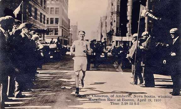 Boston Marathon Finish Line. 1910. Author: Unknown.